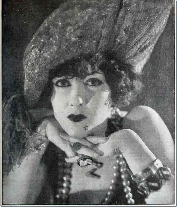 Gloria Swanson by Russell Ball 1923